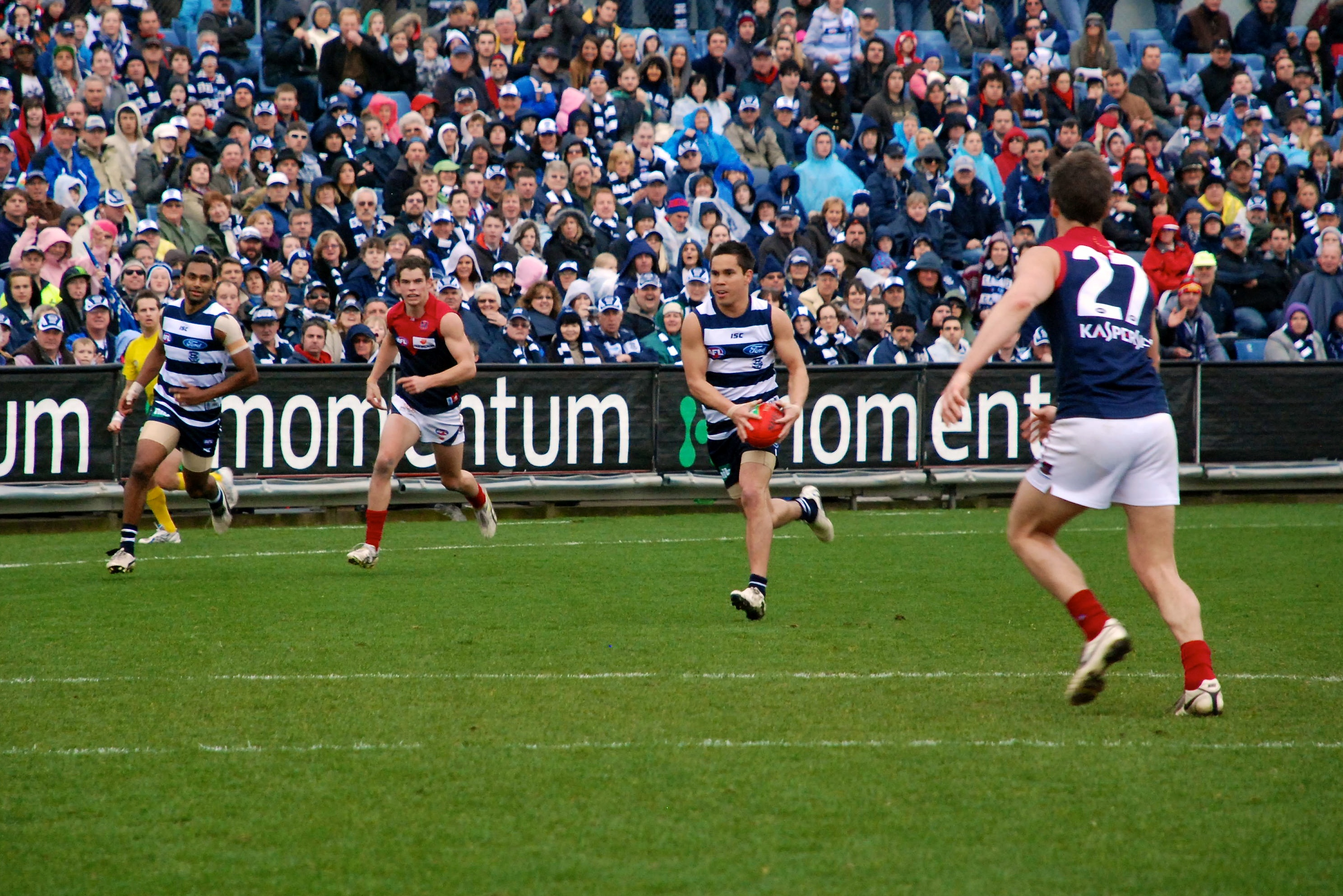 Matthew Stokes runs into goal against Melbourne in Round 19 of the 2011 AFL season